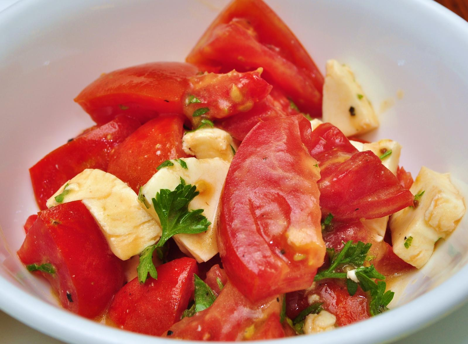 Same mustard as on the hot dog for the vinaigrette, also in there are bits of fresh mozzarella with chopped parsley and basil